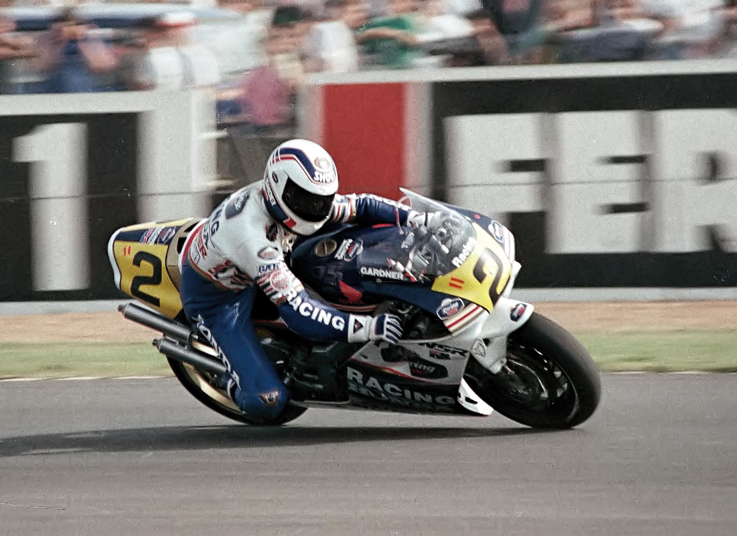 Wayne Gardner, riding his Rothmans Honda at the 1989 British Grand Prix.